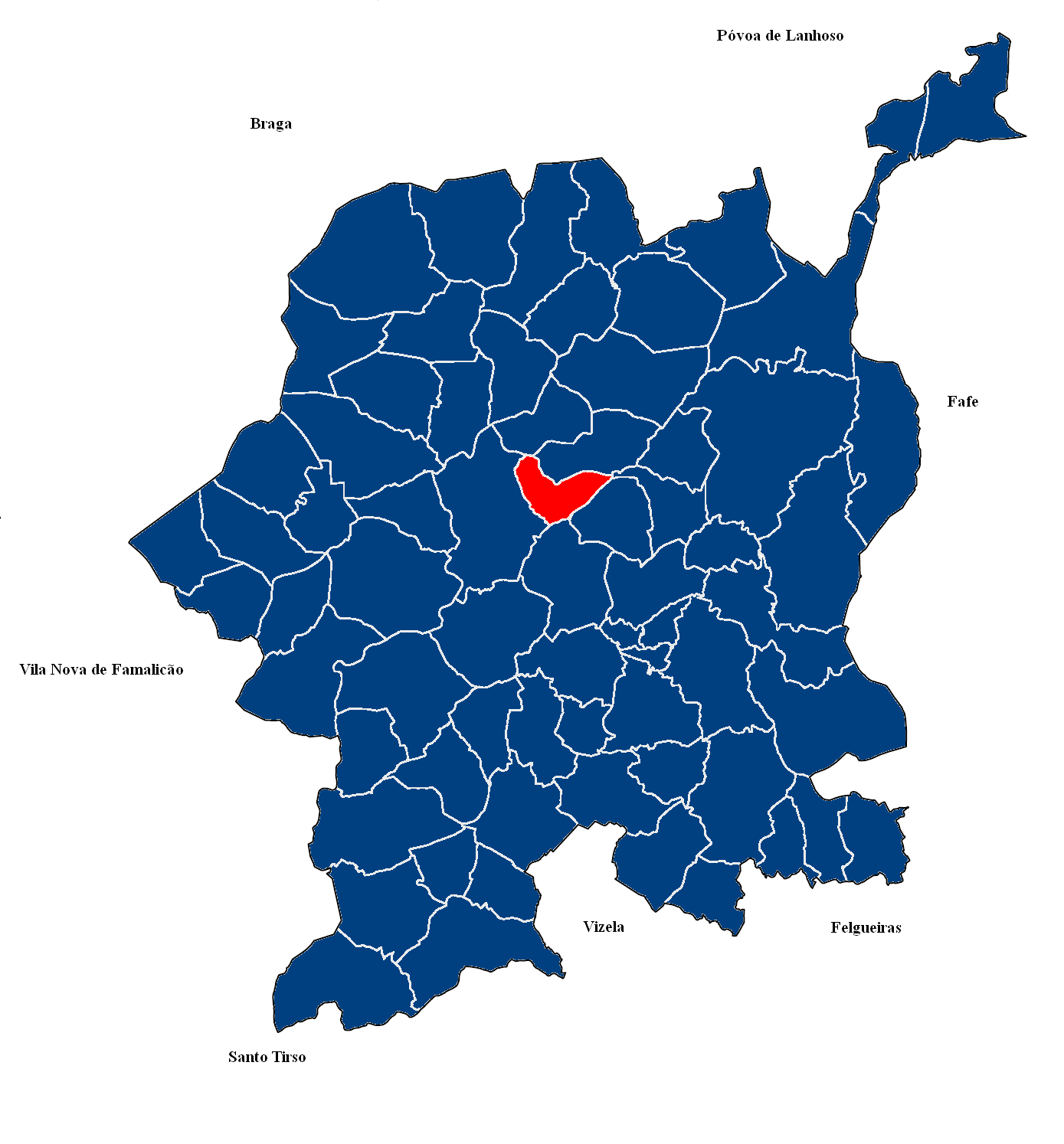 Map of Corvite parish, Guimarães Municipality, Portugal.